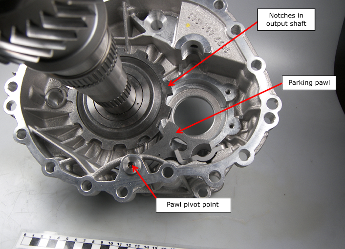 Pawl brake in a vehicle transmission